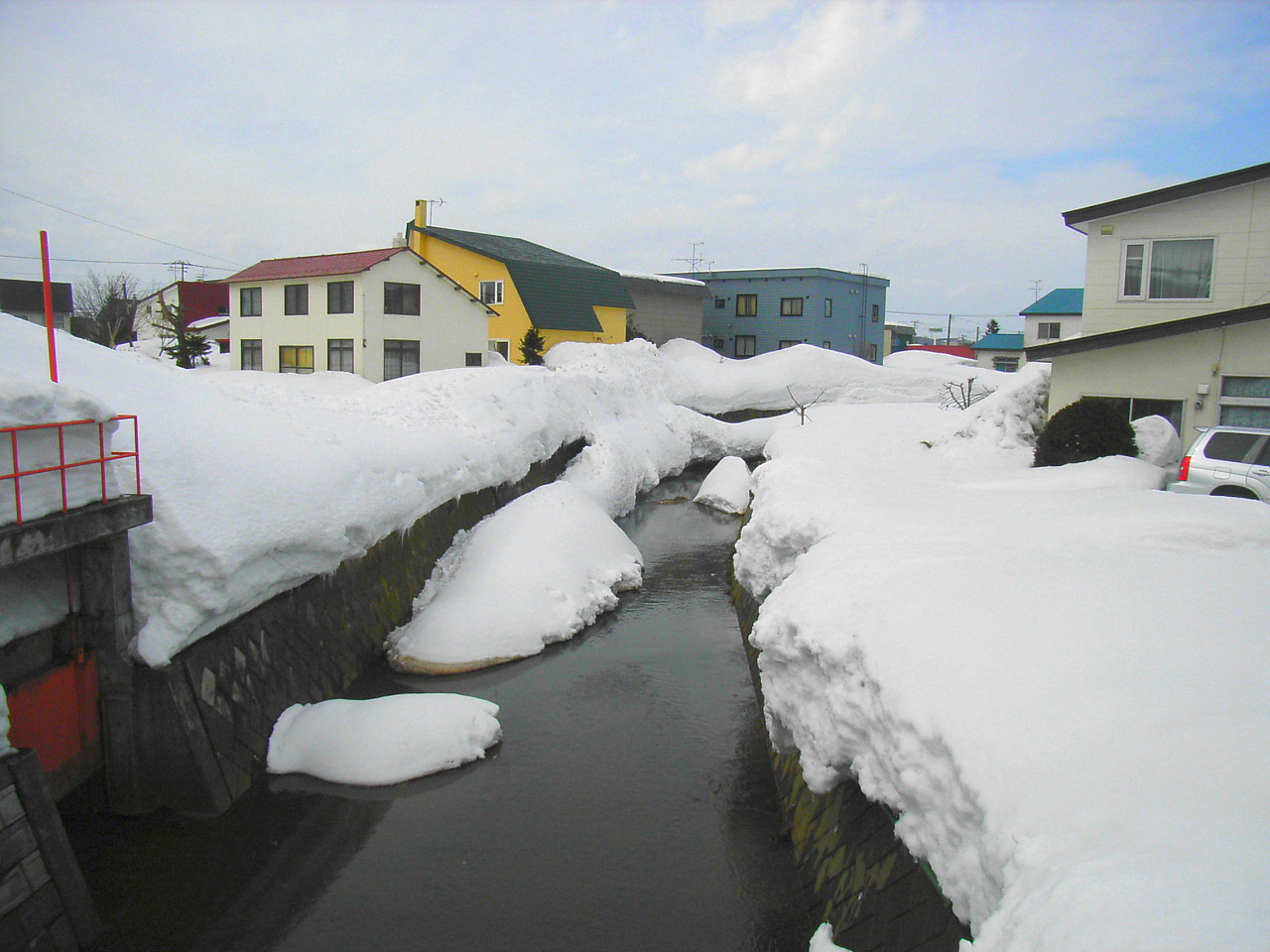 Pankechūbeshinai River. Tōbetsu, Hokkaidō prefecture, Japan.